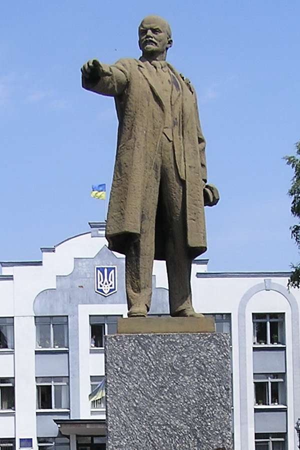 Vladimir Lenin‘s monument in Borzna, Ukraine